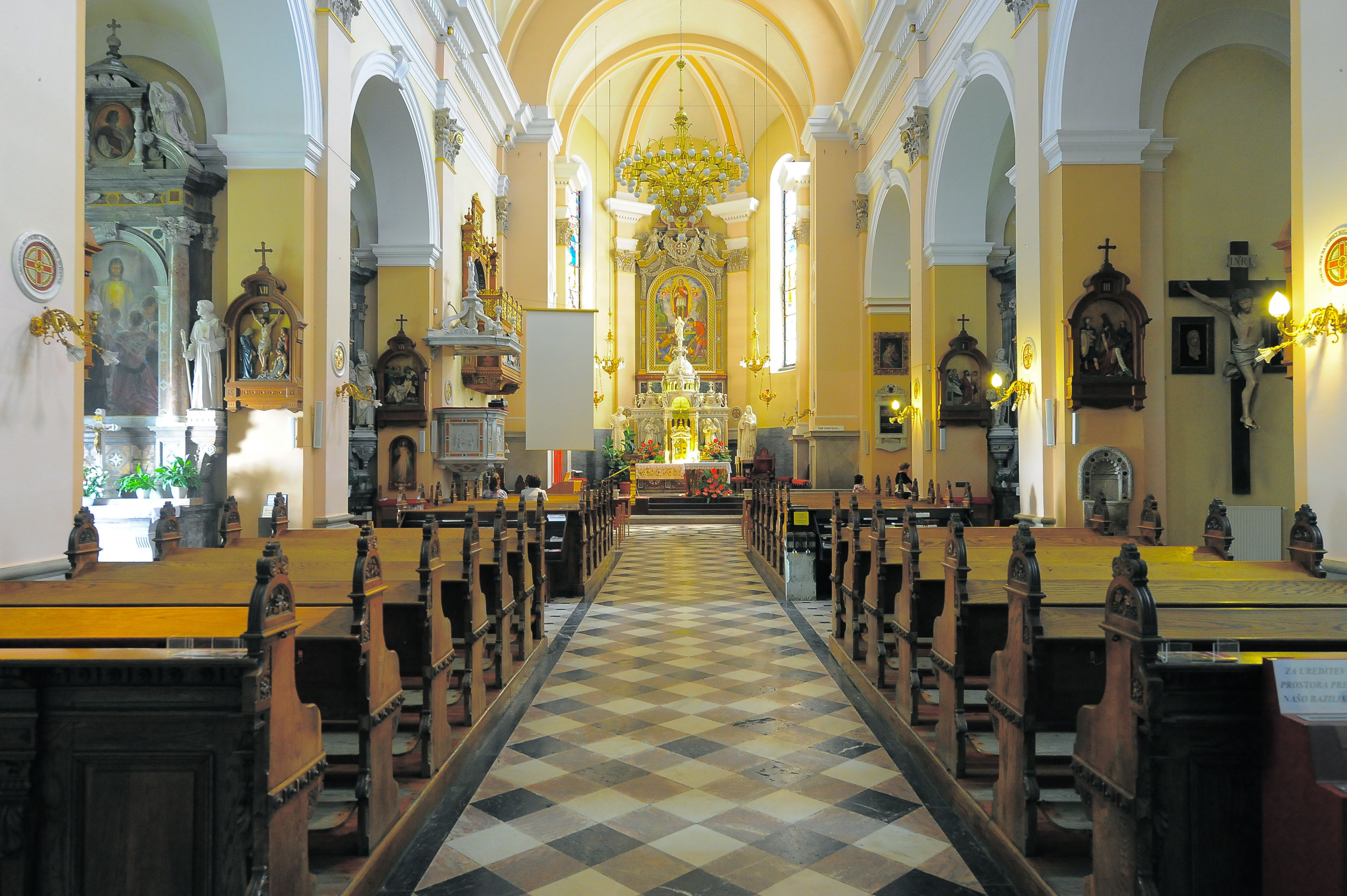 Parish and pilgrimage church Saint Veit in Brezje, municipality Radovljica / Upper Carniola / Slovenia / EU